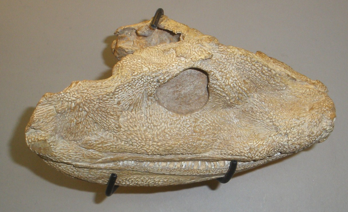 Fossil of Acanthostega gunnari, an extinct amphibian Took the photo at Musee De L'Histoire Naturelle Brussels